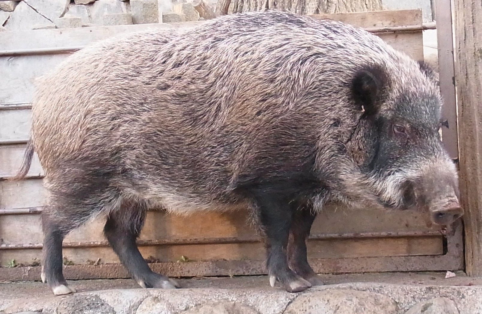 Japanese wild boar, Tama zoo.